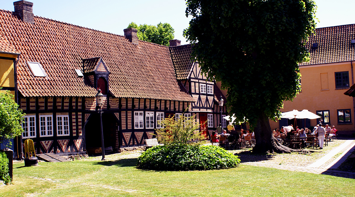 The courtard of Holbæk Museum, Holbæk, Denmark